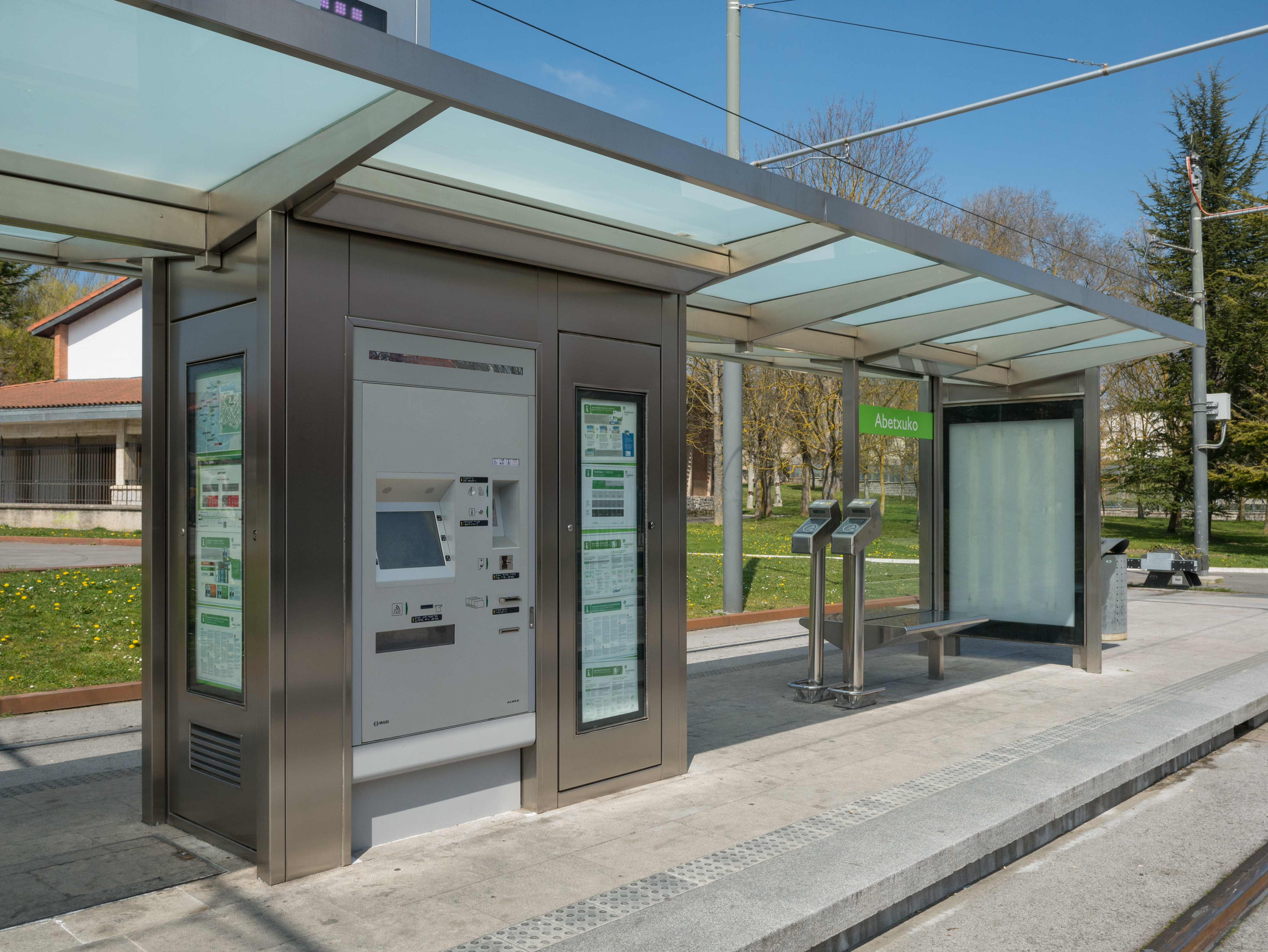 Last stop of the tramway in the quarter of Abetxuko. Vitoria-Gasteiz, Basque Country, Spain